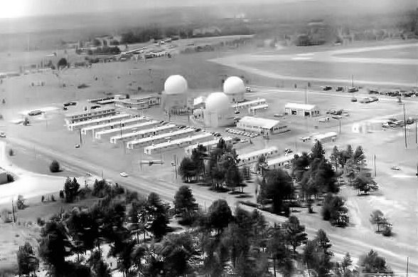 Aiken Air Force Station SC about 1964